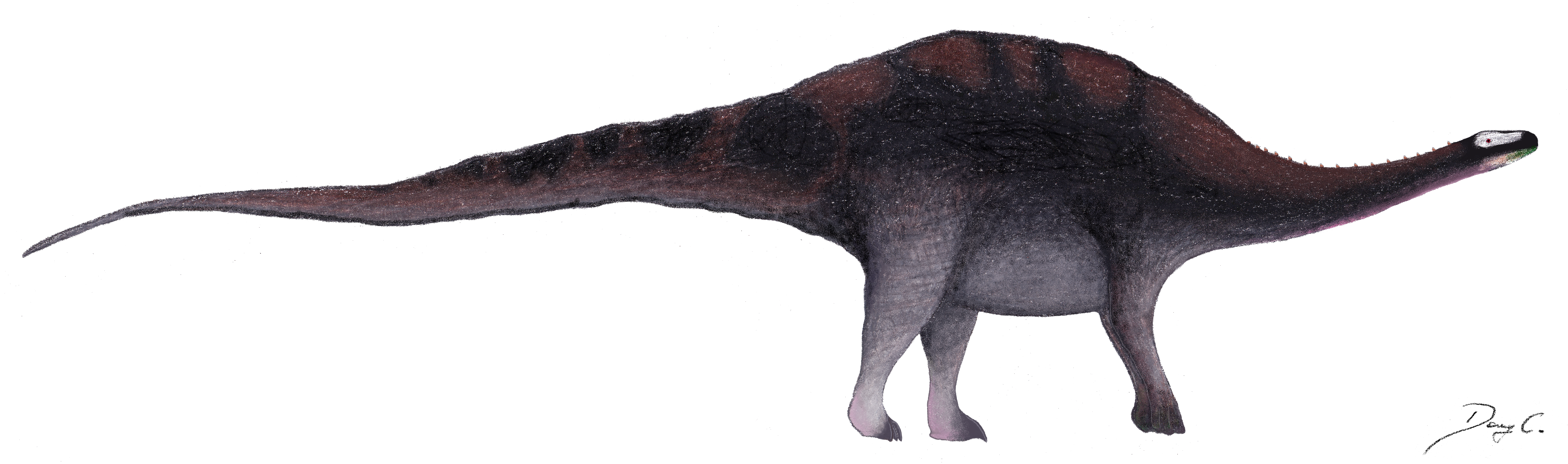 Life reconstruction